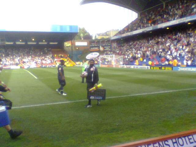 English football referee Jarnail Singh. Taken 13 September 2008.